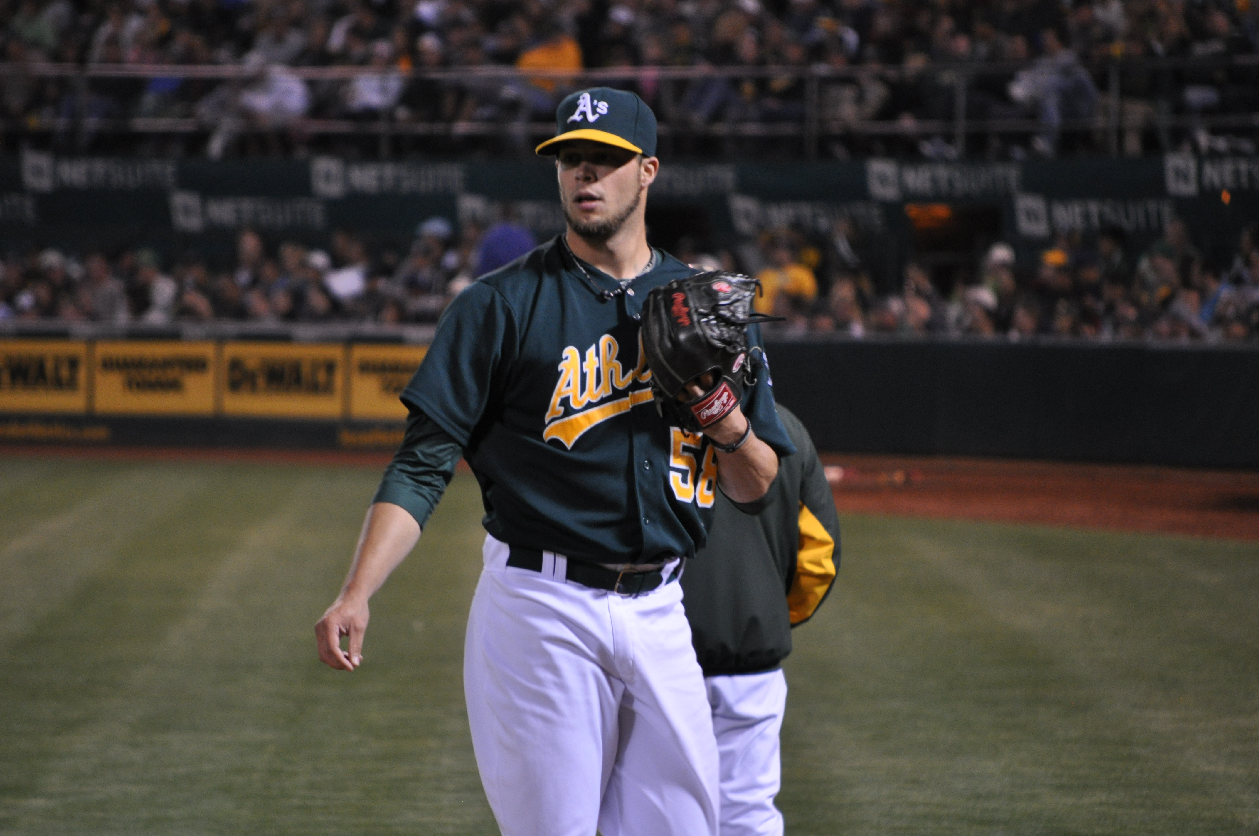 Evan warms up prior to entering the 7-31-12 A's-Rays game